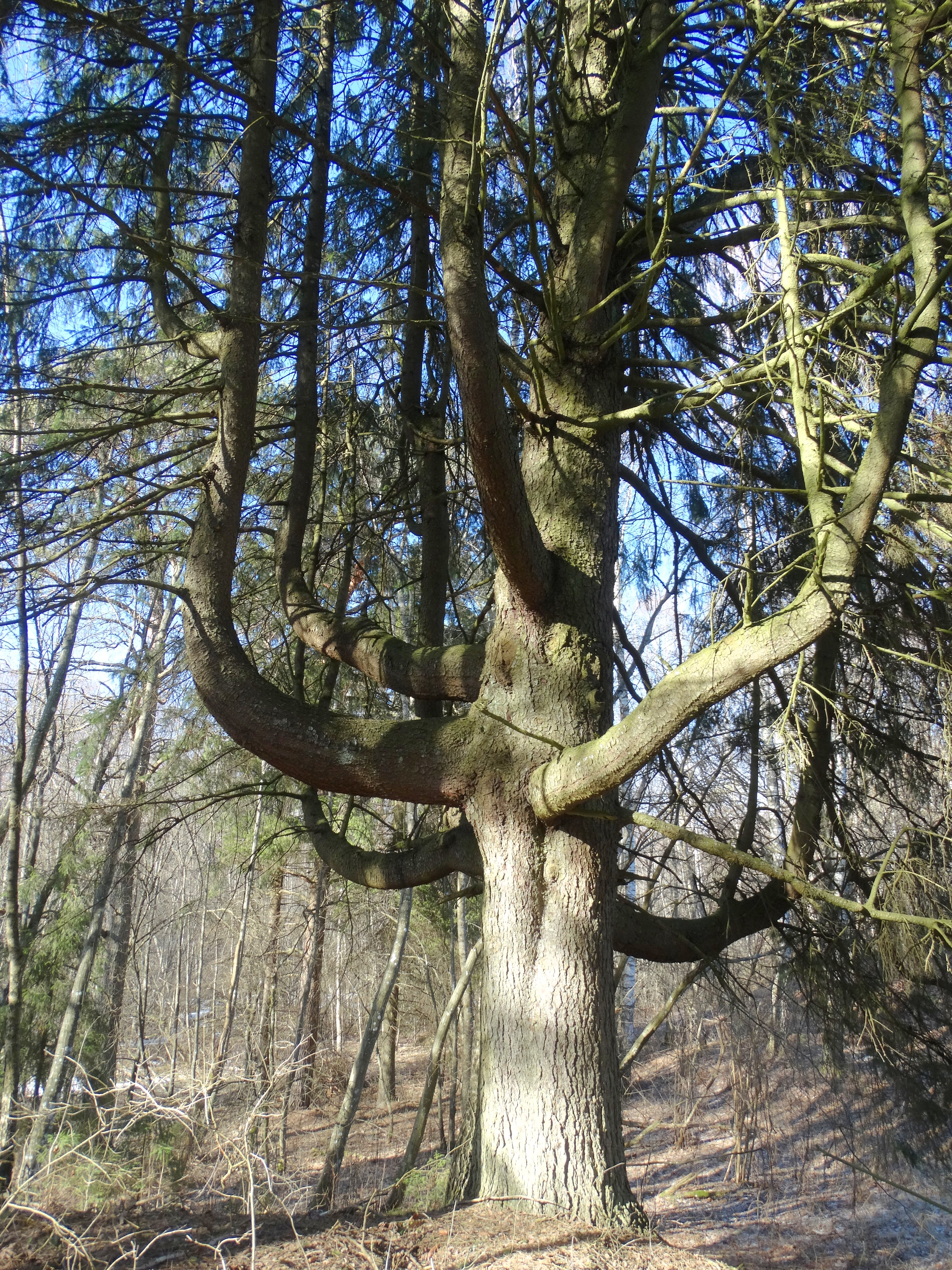 Bliūdašilis Forest Spruce, Ukmergė district, Lithuania